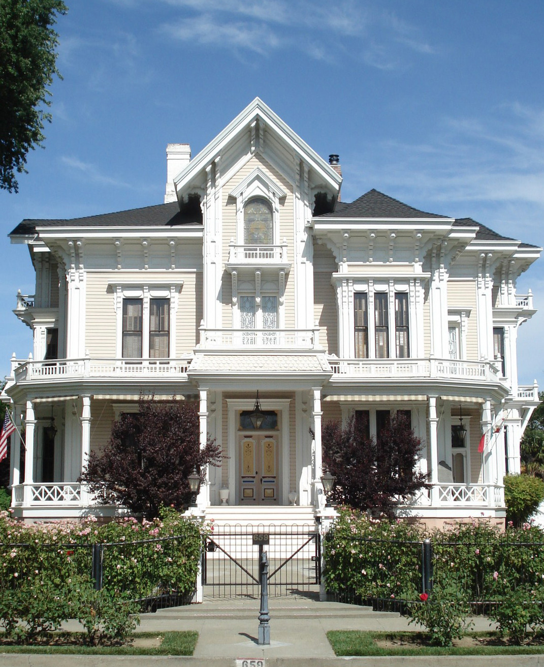 The outside face of the Gable Mansion.